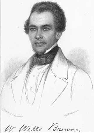 Image of the author William Wells Brown from his book, Three Years in Europe: Places I Have Seen and People I Have Met.